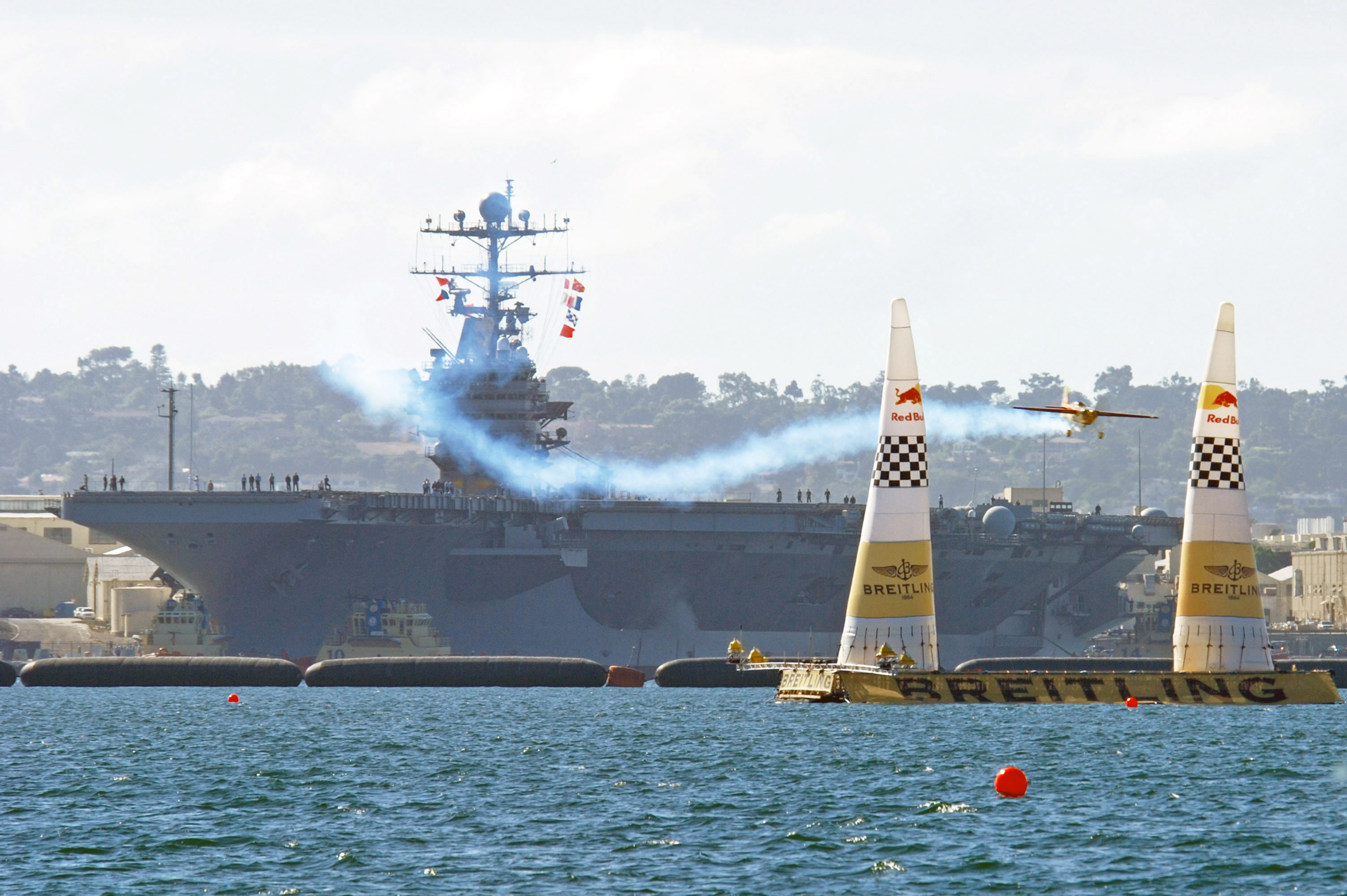 SAN DIEGO (Sept. 22, 2007) - A plane from the Red Bull Air Race maneuvers around a pylon on the slalom course in the San Diego bay as Nimitz-Class aircraft carrier USS Abraham Lincoln (CVN 72) pulls into port. The Red Bull Air Race World Series officially kicks off San Diego Fleet Week. U.S. Navy photo by Mass Communication Specialist 1st Class George Labidou (RELEASED)